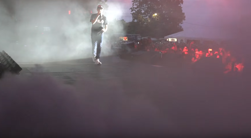 Logic during Young Sinatra Tour, 2016